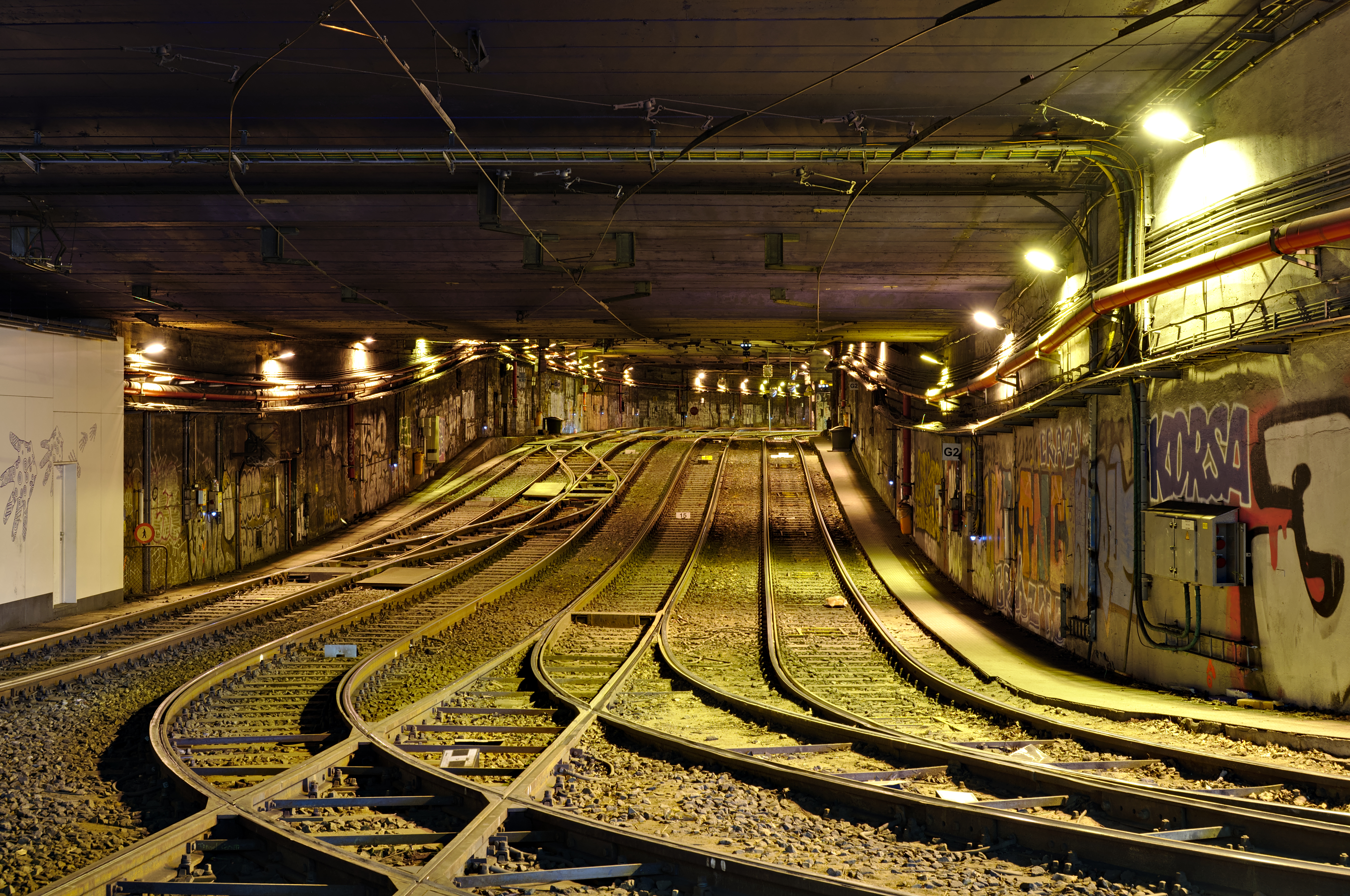 Lemonnier premetro station rails tunnel in Brussels, BE